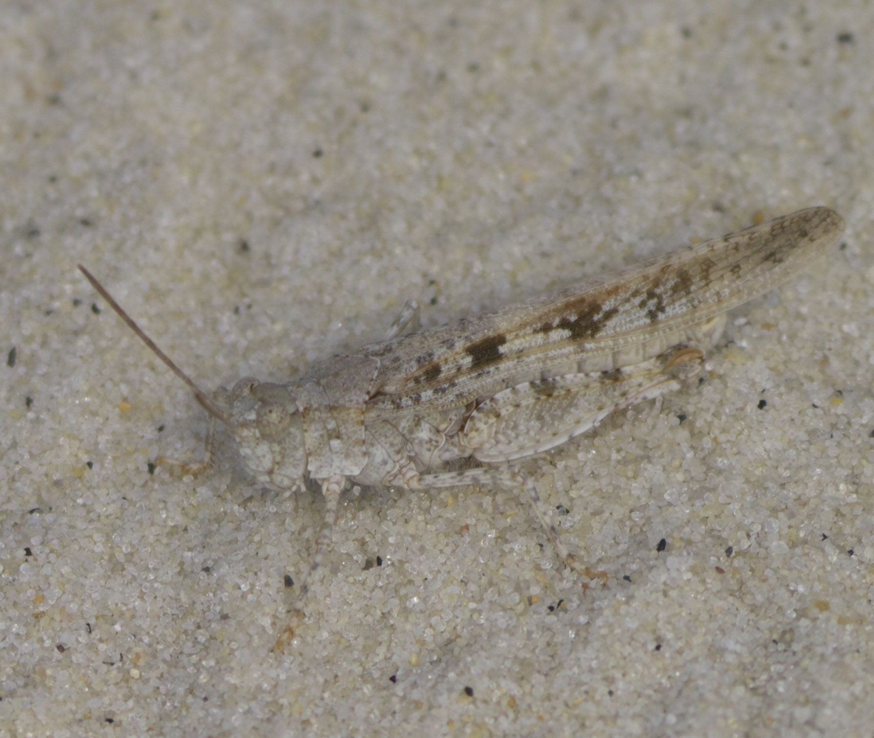 Trimerotropis maritima, Seaside Grasshopper, ID Confidence: 88